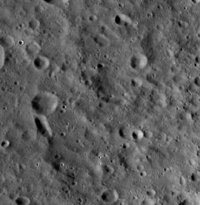 LROC image WAC No. M103452439ME.